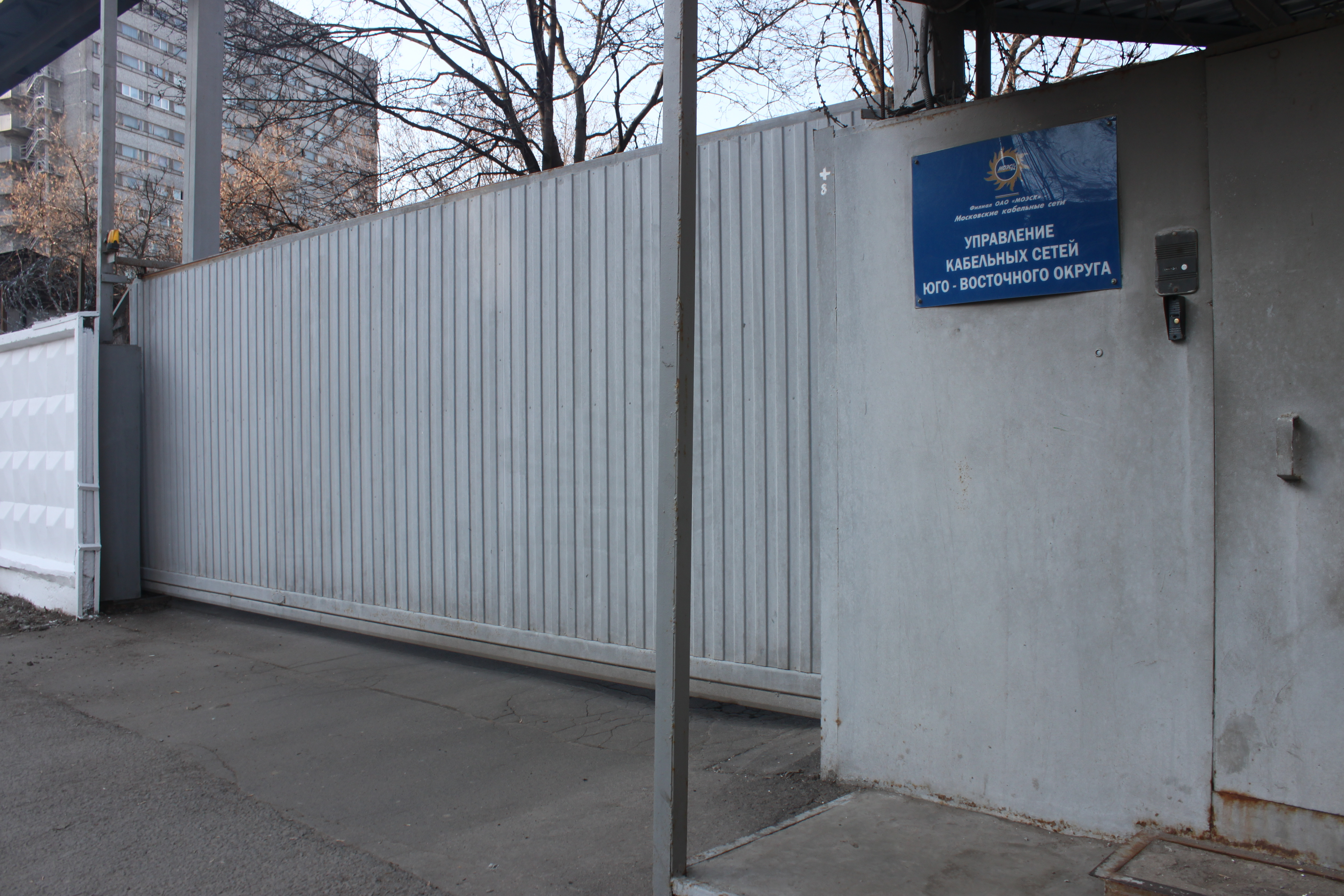 International Middle Lane